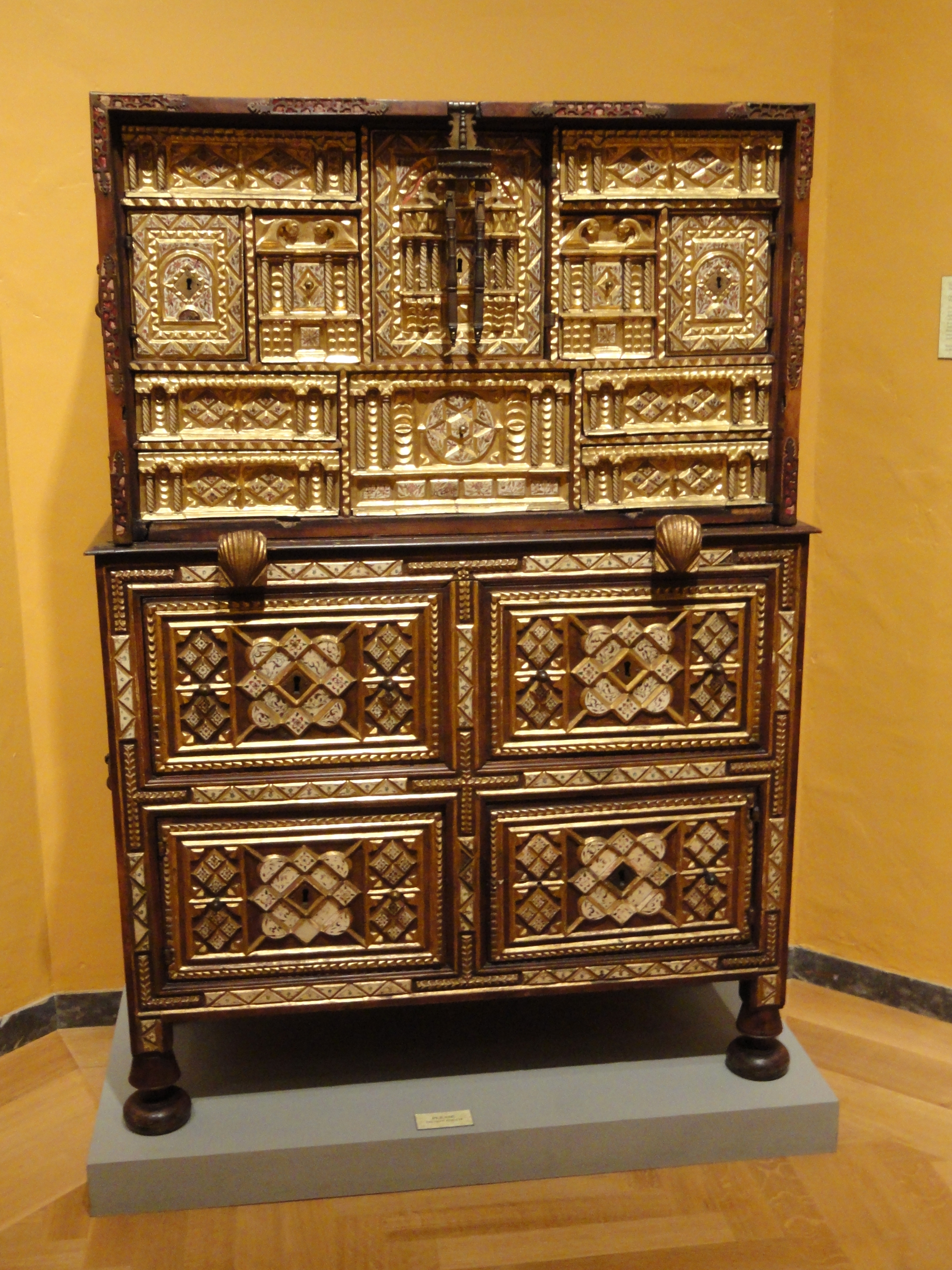 Exhibit in the Museum of Fine Arts, Springfield, Massachusetts, USA. This artwork is old enough so that it is in the public domain.